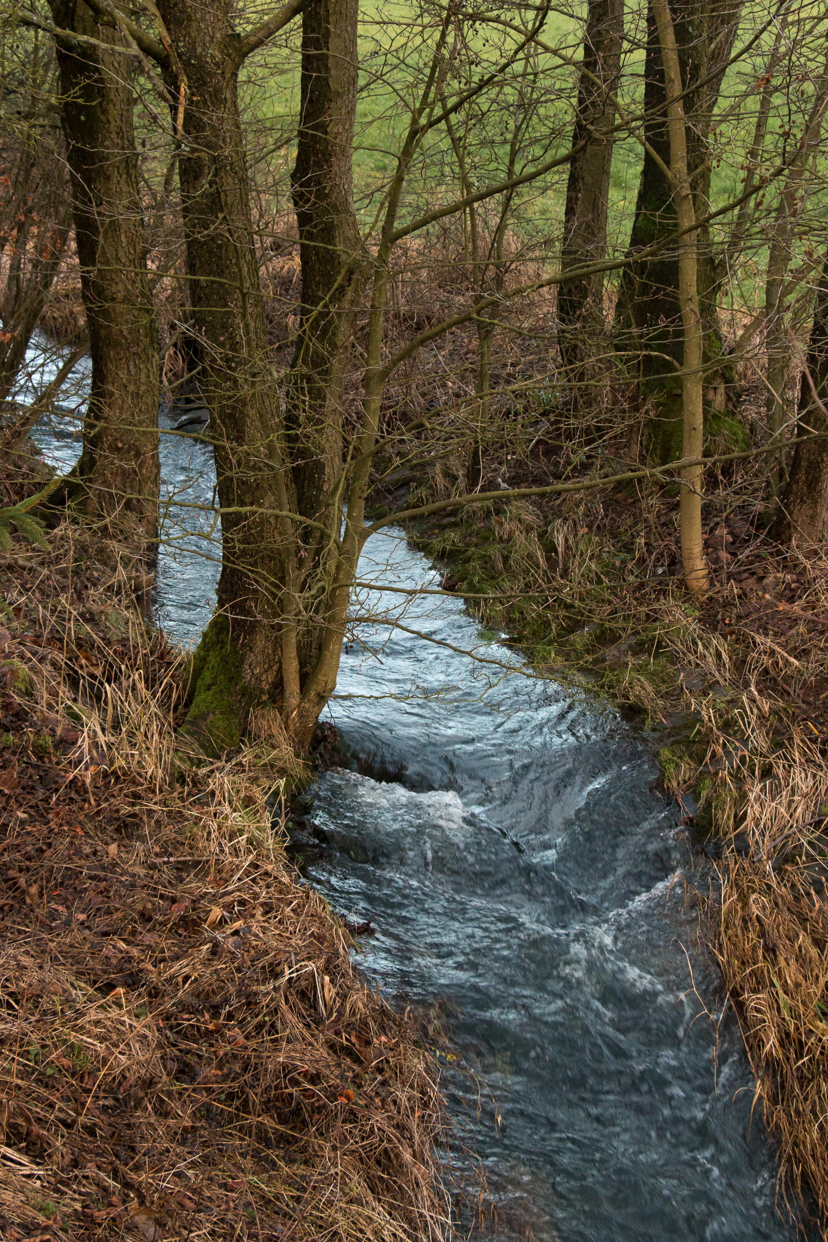 The Kieselbach near Hellenhahn-Schellenberg